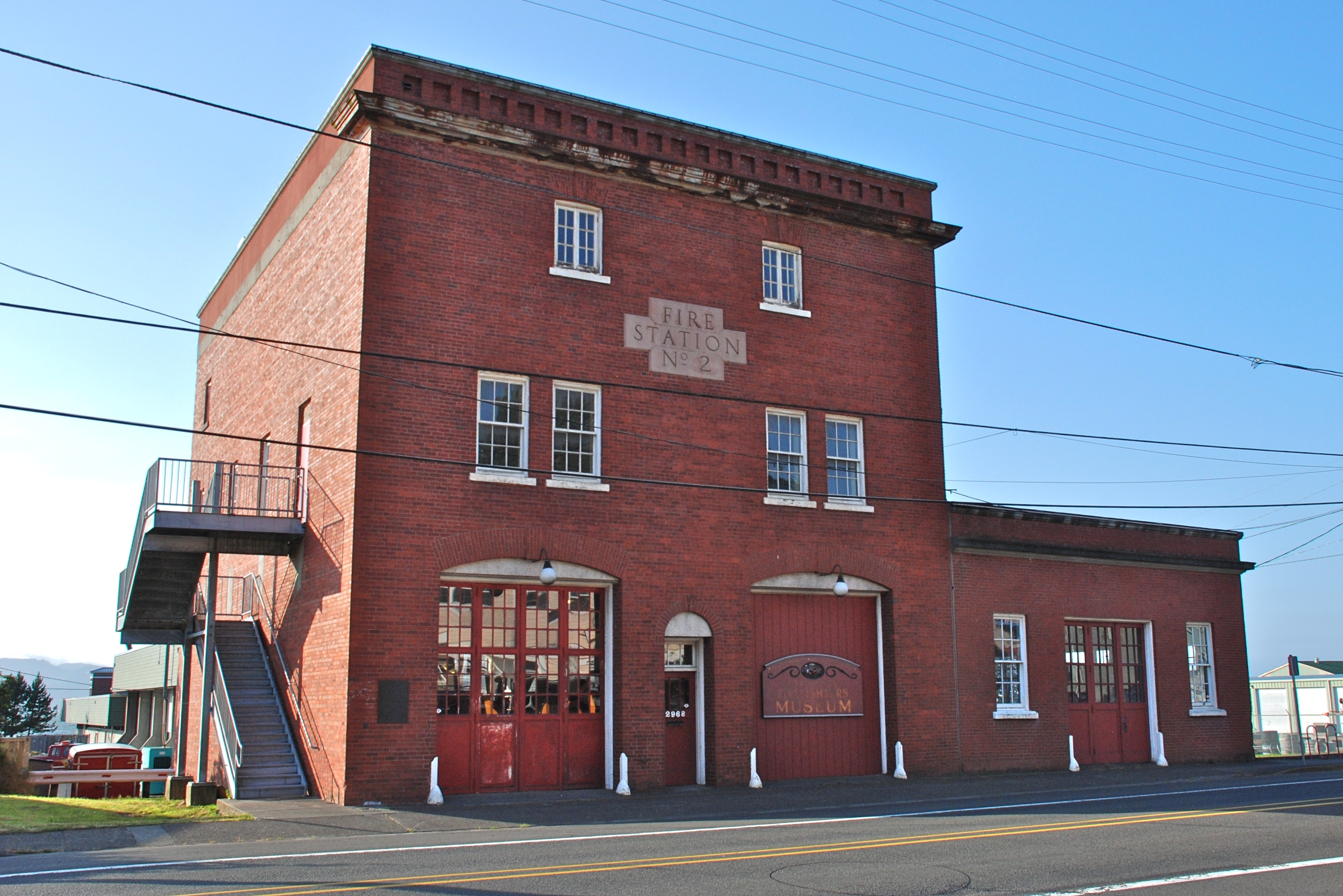 Astoria Fire House No. 2, in Astoria, Oregon, is a former fire station that is listed on the U.S. National Register of Historic Places. Built in 1896 as a storage building for the North Pacific Brewing Company, it was converted into a fire station in 1928–29. The single-story wing was added later, by 1935.